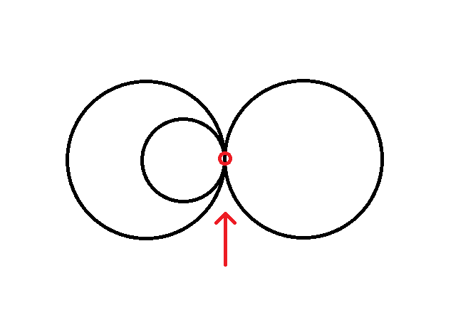 A bitmap version of "Three 'Kissing'"Circles without Appolonian Circles"